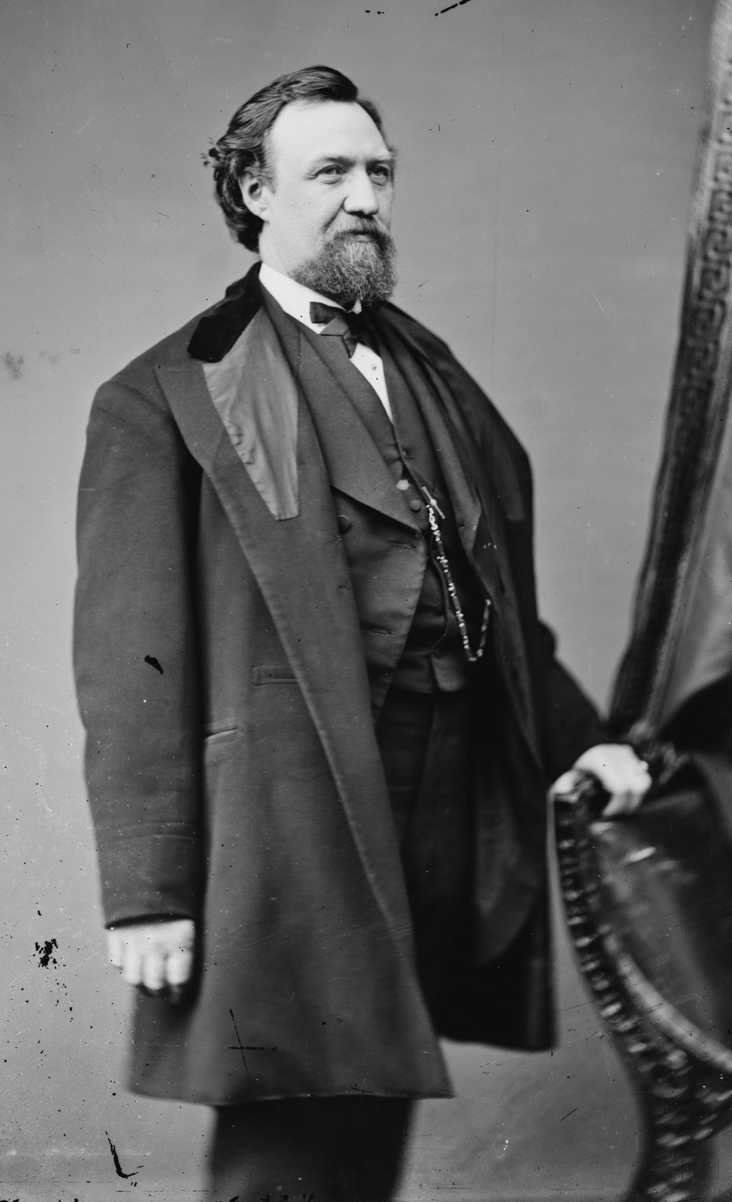 Thomas Kinsella (New York). Library of Congress description: "Hon. Thomas Kinsella of N.Y."